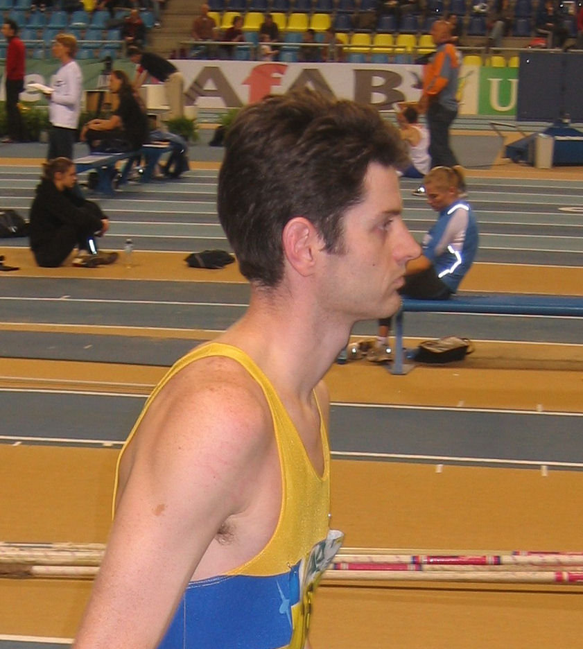 Wilbert Pennings at Dutch indoor championships '08, Gent